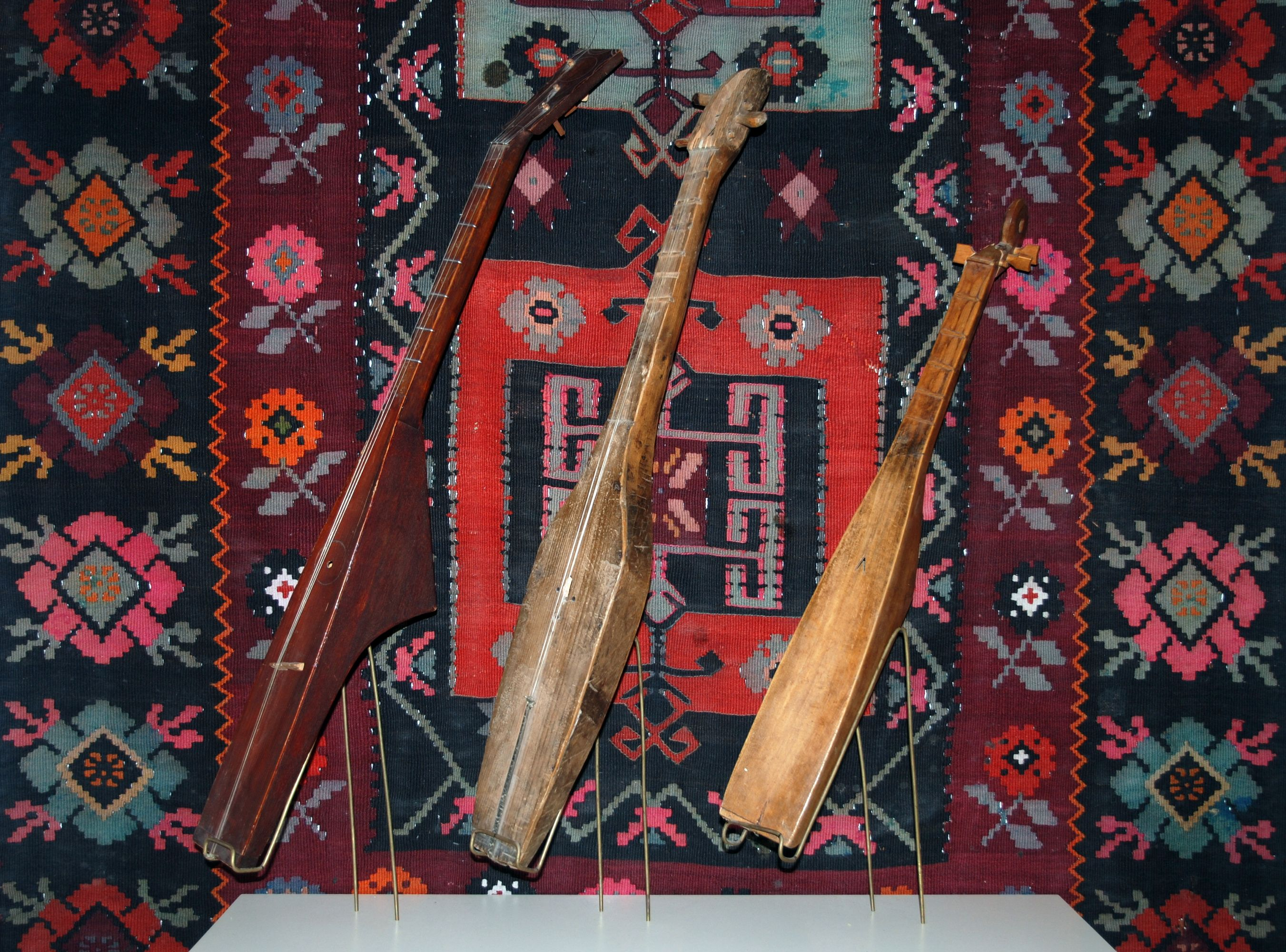 Panduri, State Museum of Georgian Folk Songs and Musical Instruments, Tbilisi